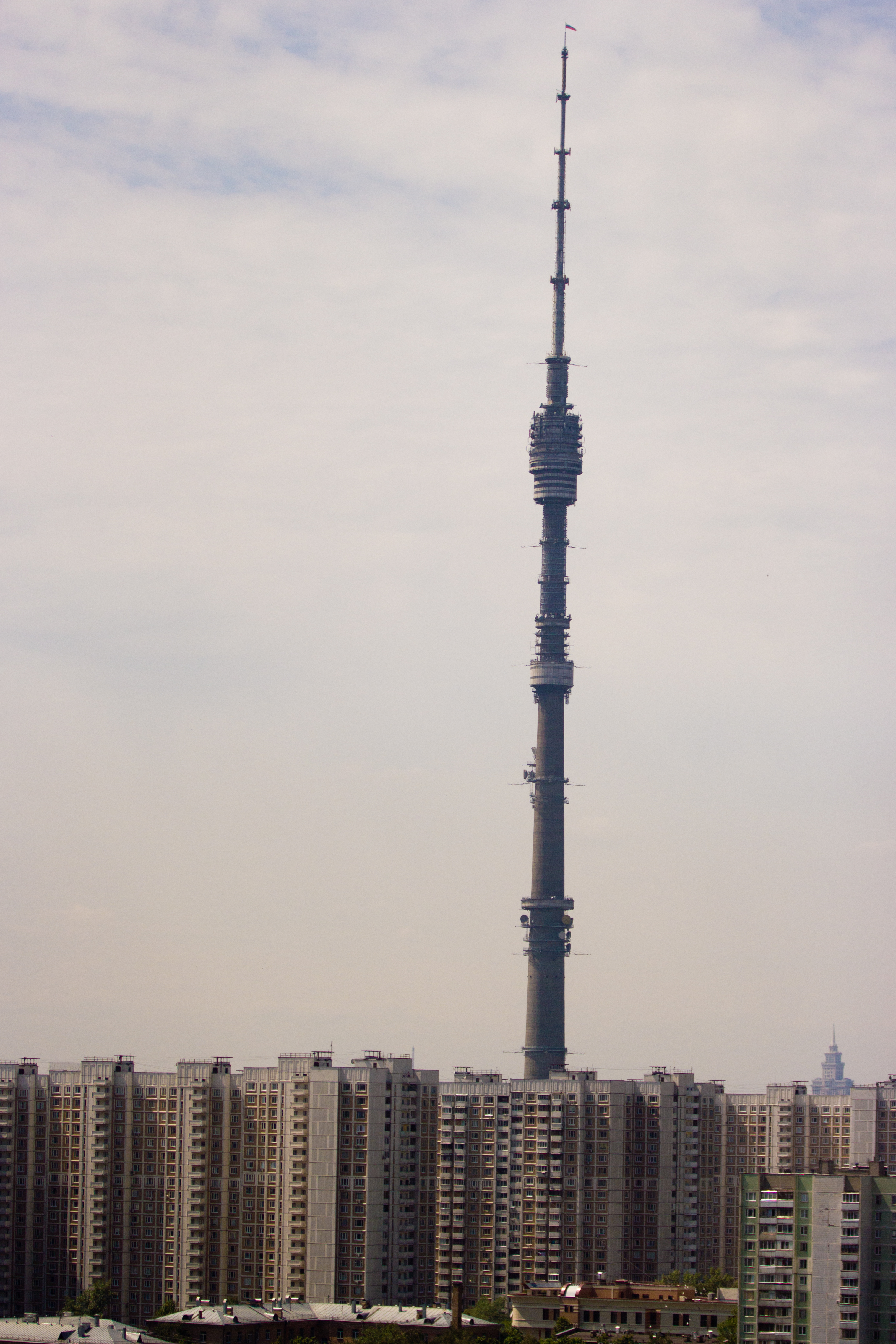 Russia